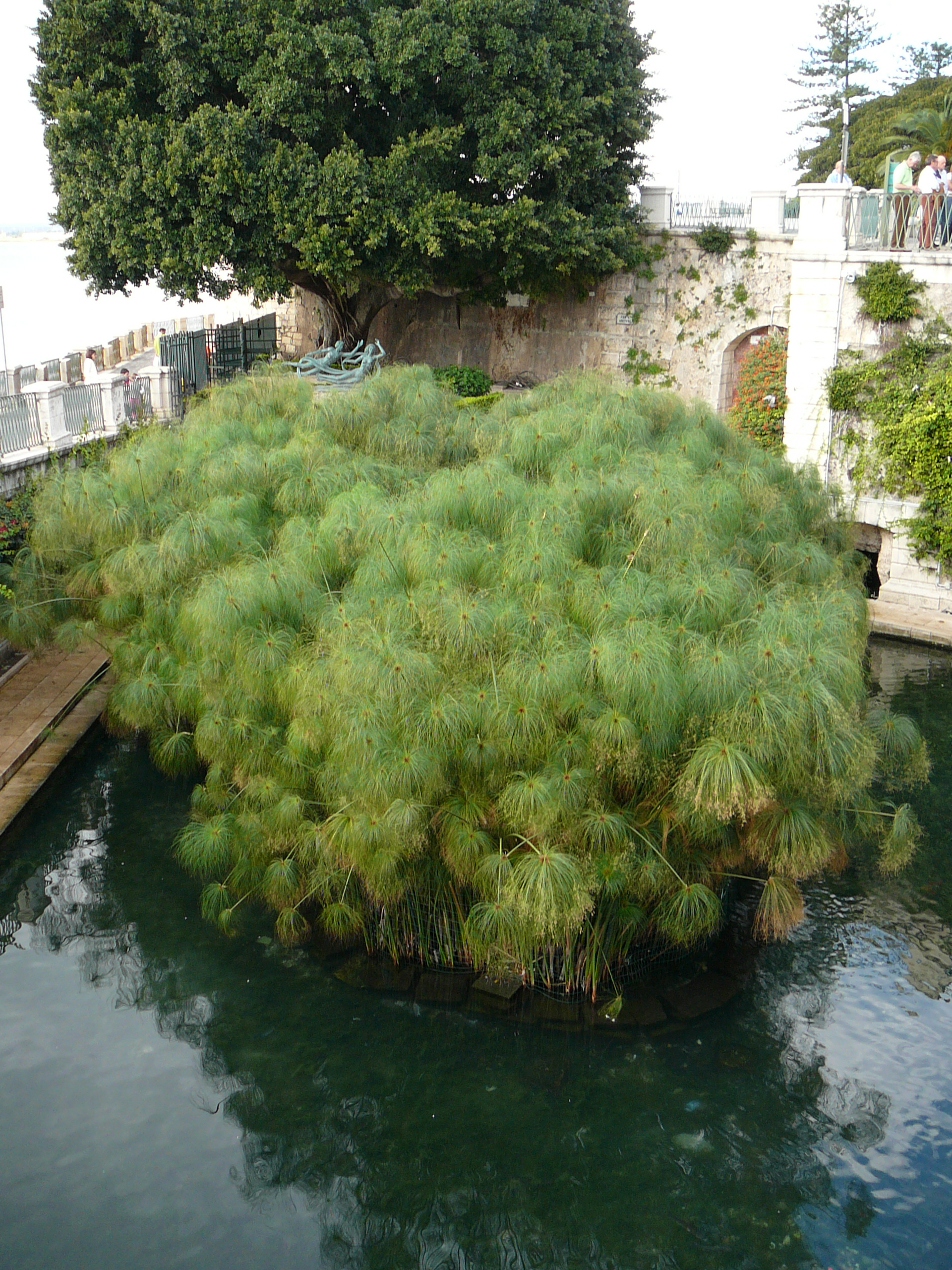 Papyrus plants of the Arethuse's spring ("Fonte Aretusa") in Syracuse, Italy. It is a fresh-water spring curiously springing along the sea shore. Known since the Greek time, it was rearranged in the semi-circular lake which can be admired today (filled with fresh-water fish and papyrus) only in 1847, demolishing the upper part of the Spanish bulwark still surrounding it, which had been built in 1540.